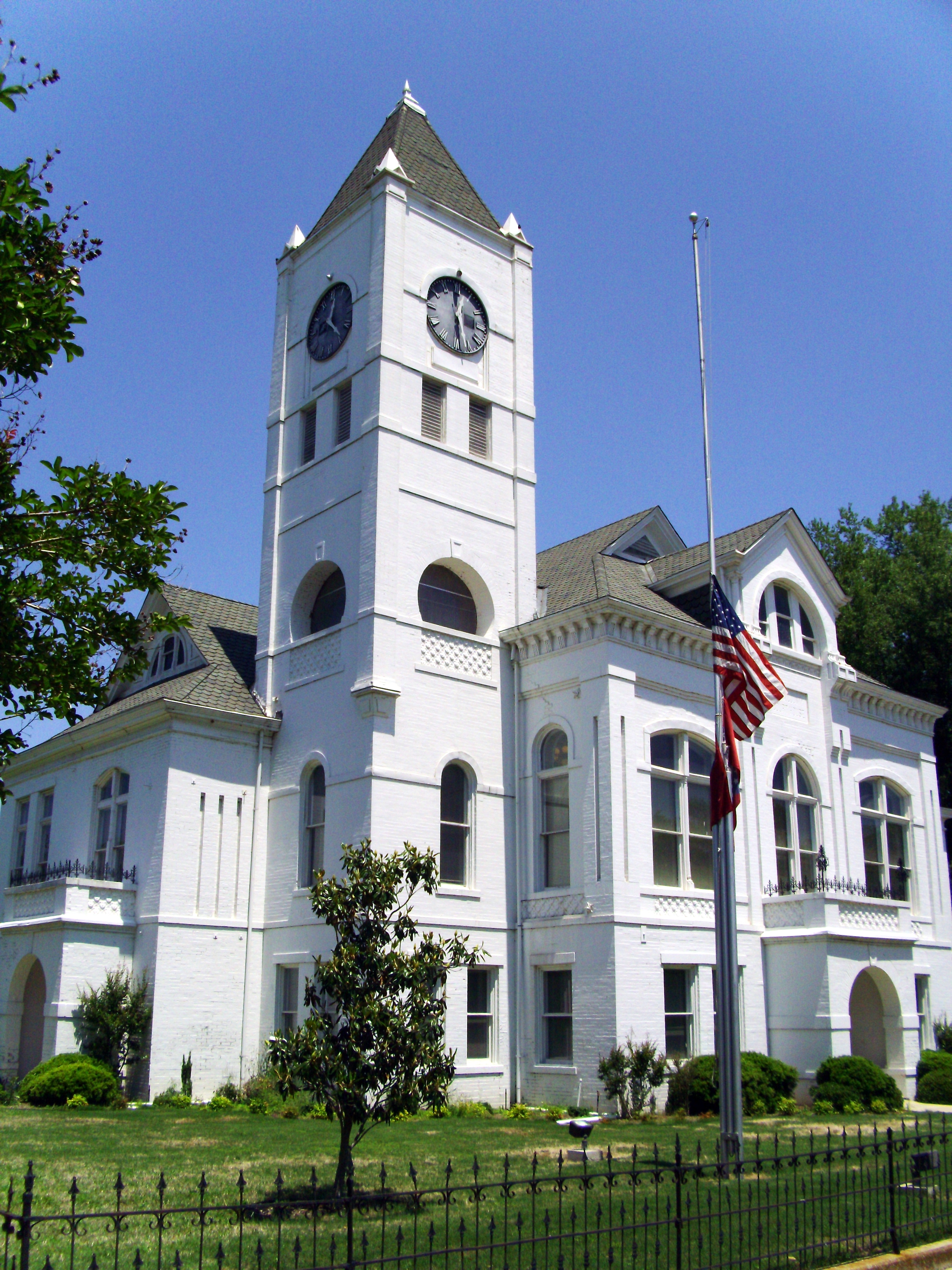 Robert S. Moore Ave. 1900 Romanesque Revival structure